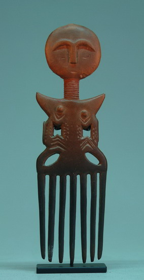 Ashanti Comb - A rare ceramic / pewter example.